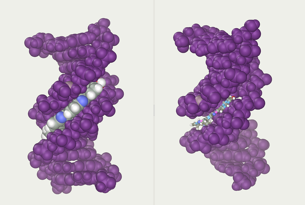 Ligand in minor DNA groove. Picture created by Abalone program.